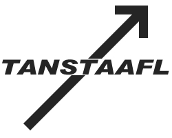 The Libersign, with arrow passing diagonally through the letters TANSTAAFL